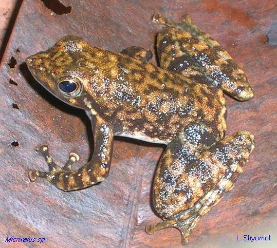 Most probably Micrixalus saxicola (Black Torrent Frog) Jerdon, 1853 Id by Dr K. V. Gururaja from photograph only. No specimens taken. Photograph by L. Shyamal, Wynaad, 2006